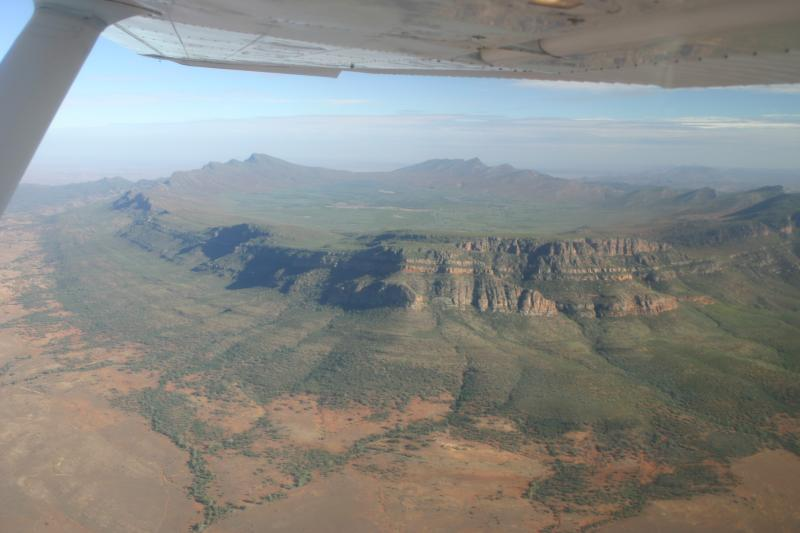 Flinders Rangers, Wilpena Pound, from the air